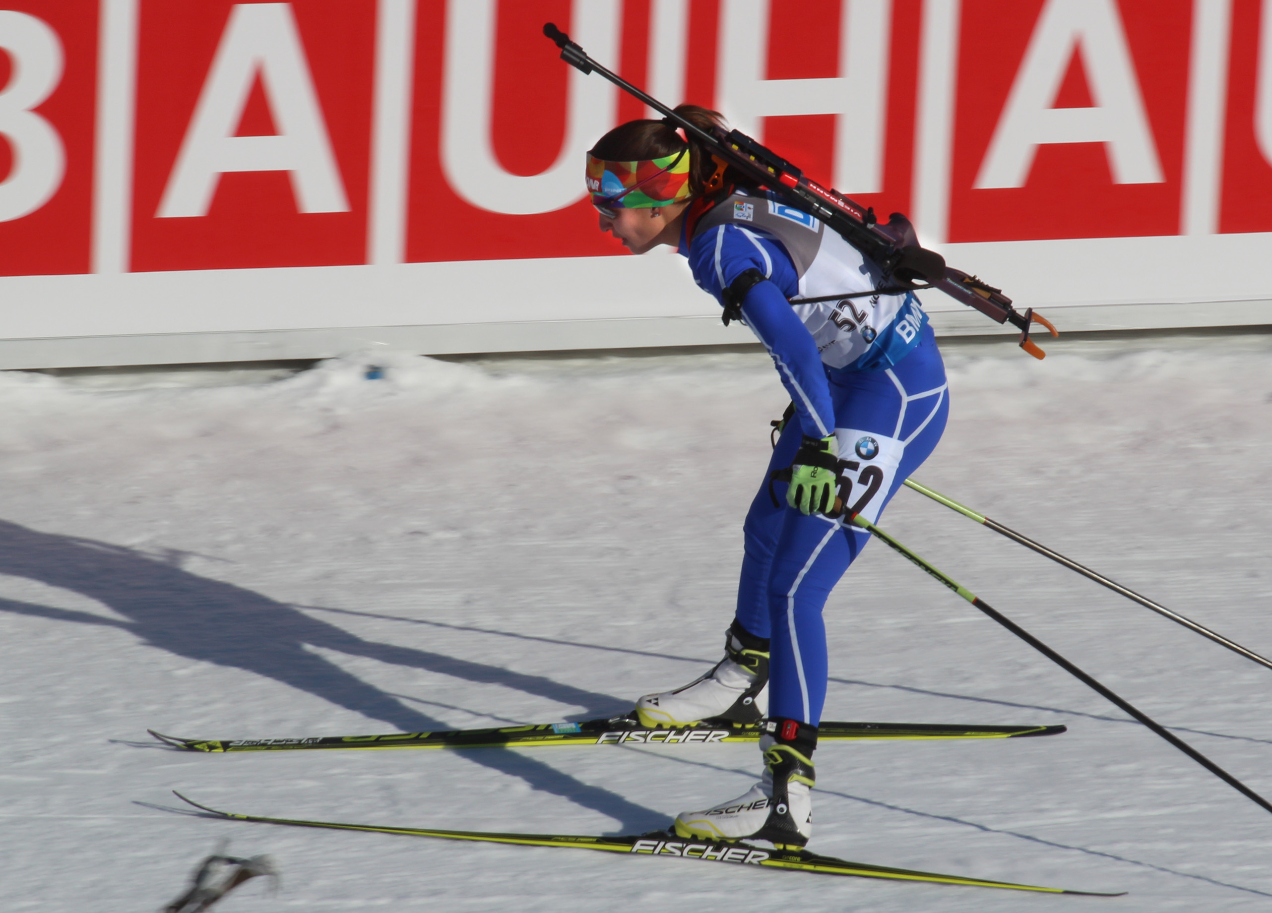 Victoria Padial Hernandez at Biathlon World Cup 2015 in Nové Město, Czech Republic – sprint women